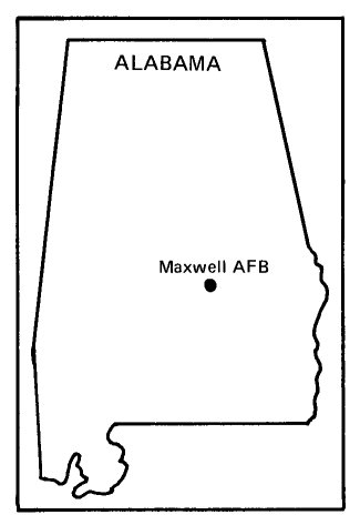 Locator map of Maxwell-Gunter Air Force Base — in Alabama